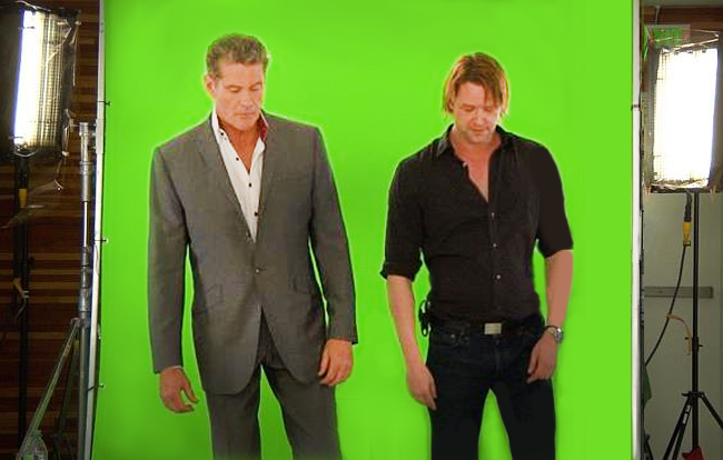 McFadden with actor David Hasselhoff, filming in-game segments for "The Hoff" online game.